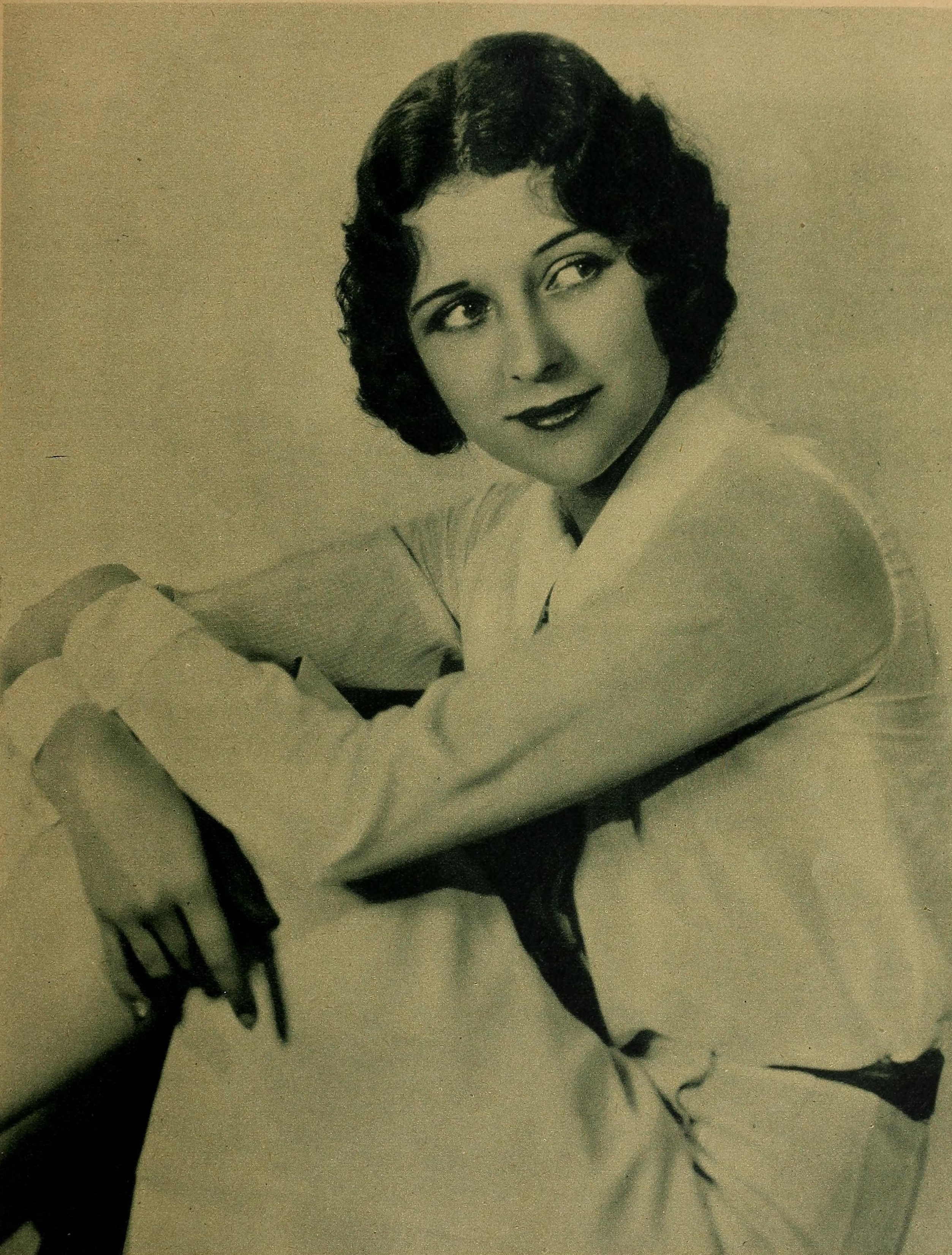 Motion Picture, December 1928